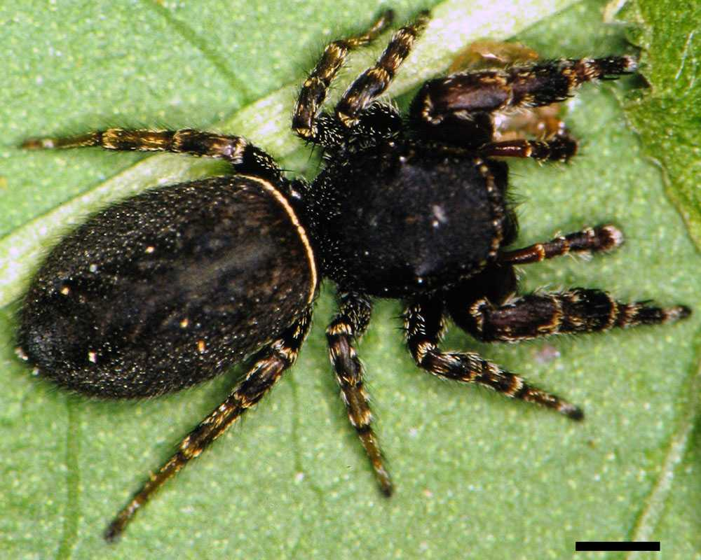 Female Ghelna castanea jumping spider from Gainesville, Alachua County, Florida, USA